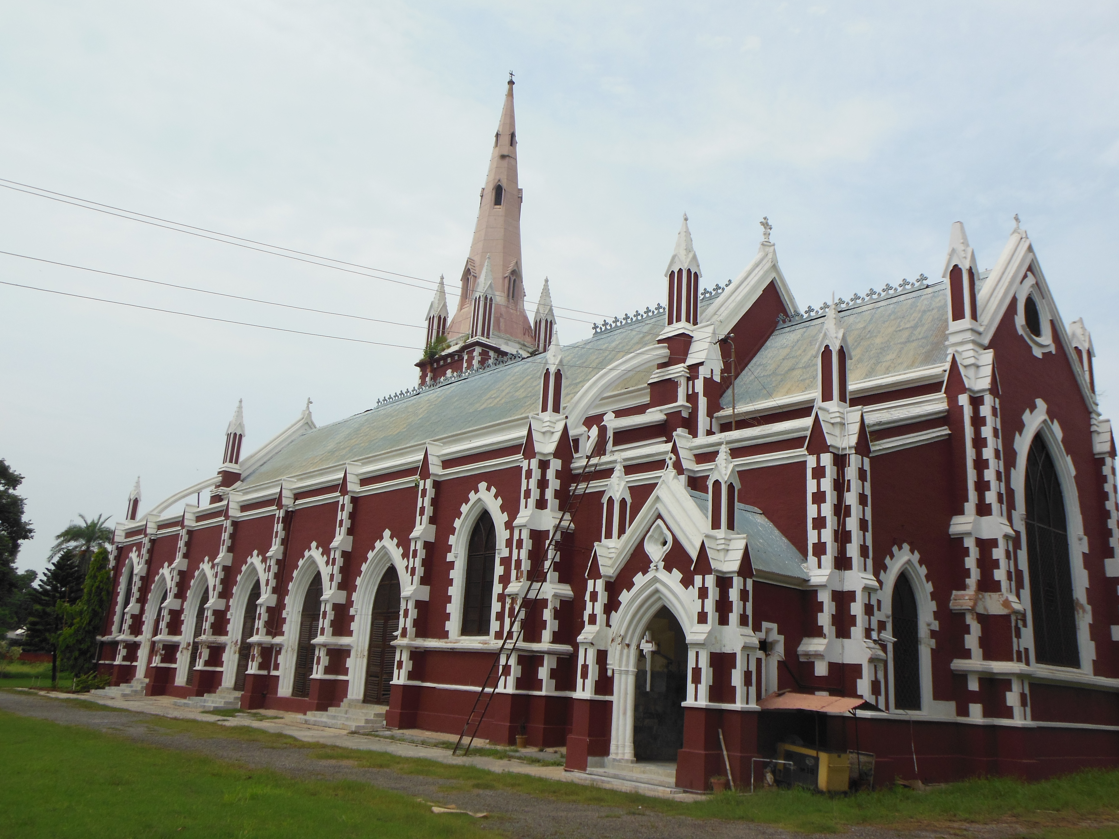 Sialkot Cathedral- Outside of the Sialkot Cathedral located in Sialkot Cantt, Pakistan. This is a photo of a monument in Pakistan identified as the PB-U-60